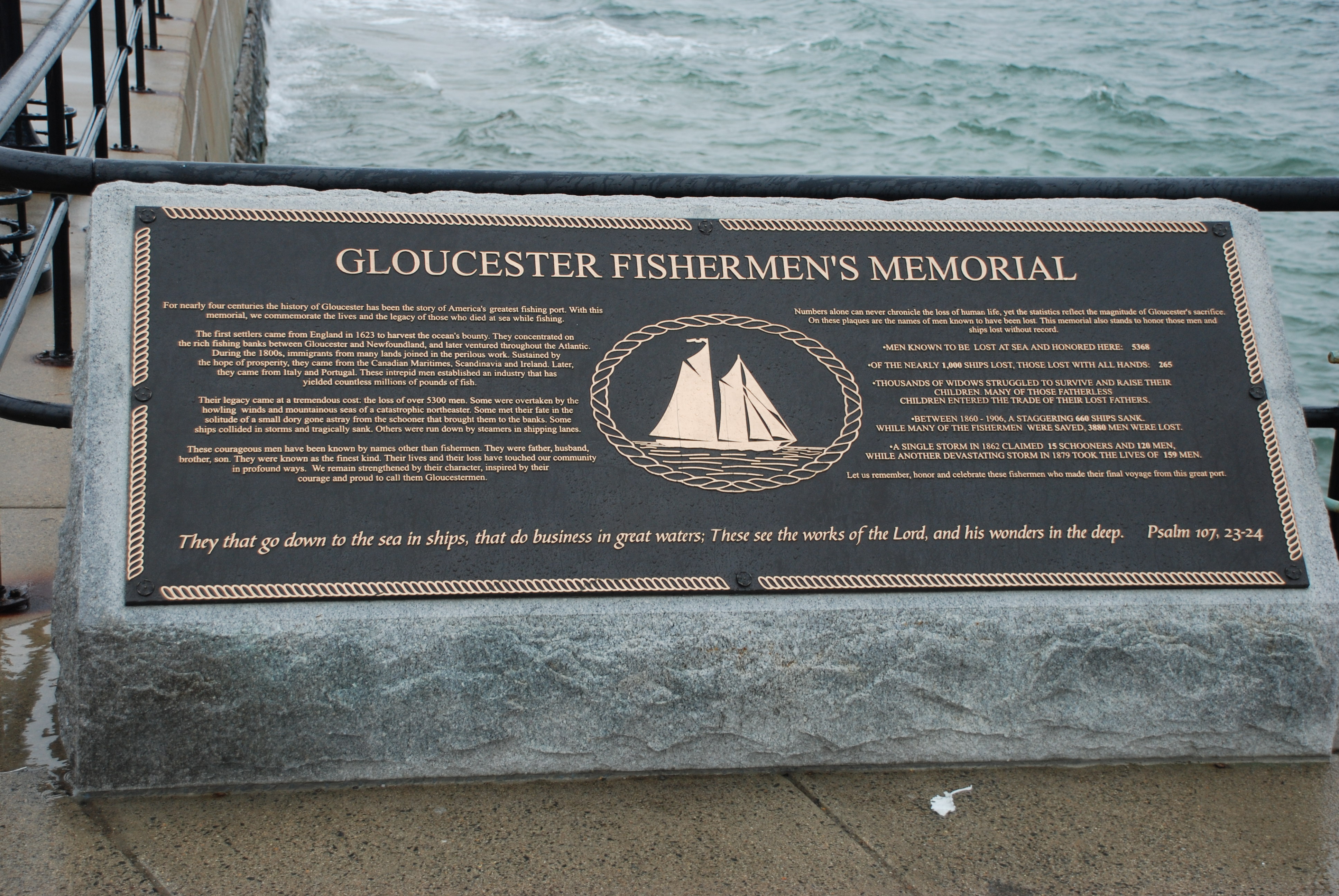 Plate at Fisherman's Memorial in Gloucester (Massachusetts, USA)